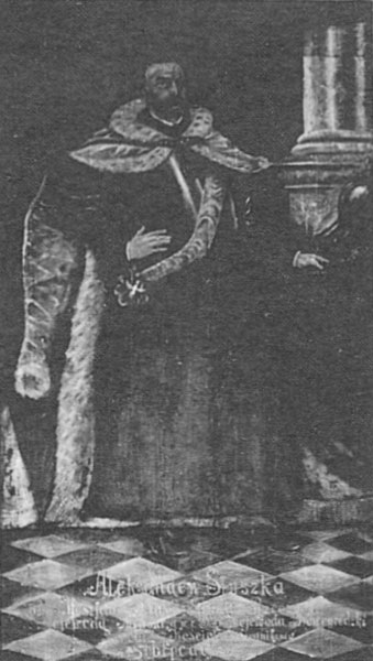 Portrait of Aleksander Słuszka (1580–1647)